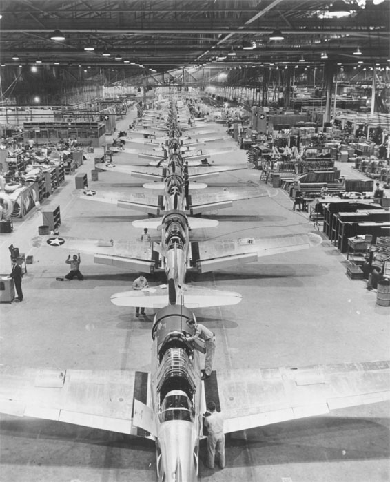 Production of U.S. Army Air Forces Vultee BT-13/-15 Valiant trainers at Downey, California (USA), in 1943. Original description: "(Downey, CA) Their propellers almost touching the next ship's rudder, basic trainer planes flow tail first down the final assembly line - the fastest in the world - in Consolidated Vultee Aircraft's plant here. Eleven nearly completed planes, just part of one day's production, can be counted on this portion of the long powered conveyor line in the factory that is the Army's and Navy's major source of basic trainers and holds the reputation of being the most efficient in the aircraft industry. "